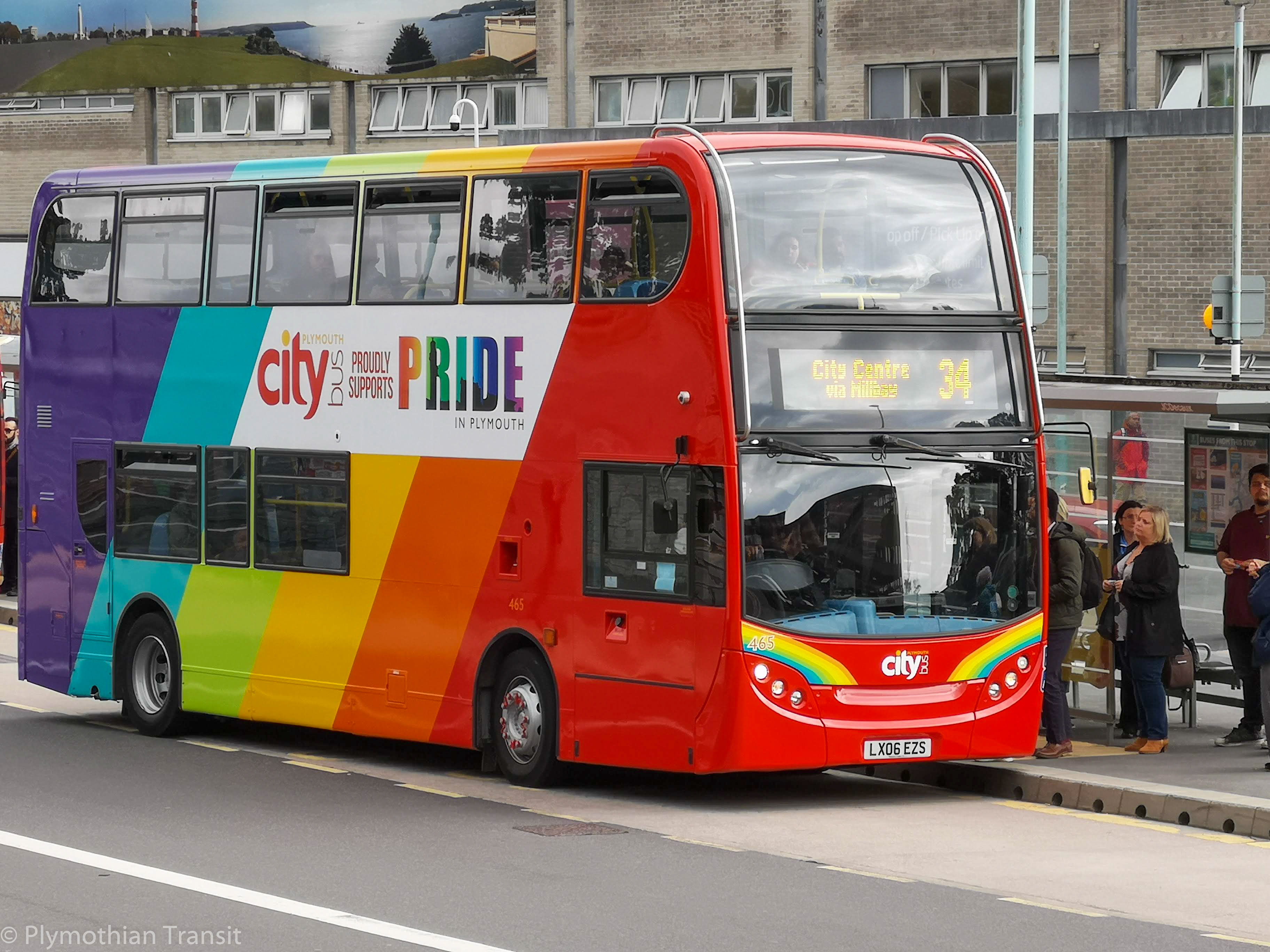 465 LX06EZS PLYMOUTH CITYBUS Ltd Alexander Dennis Trident Alexander Dennis Enviro 400 PRIDE in Plymouth Derriford Hospital, Plymouth 13 August 2019 Route-34